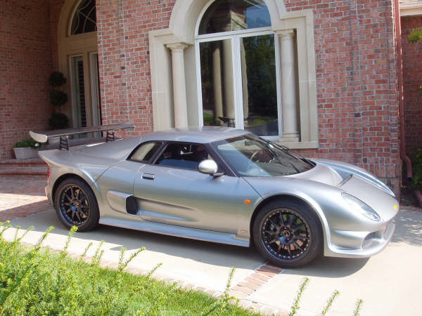 Image of a 2006 Noble M400